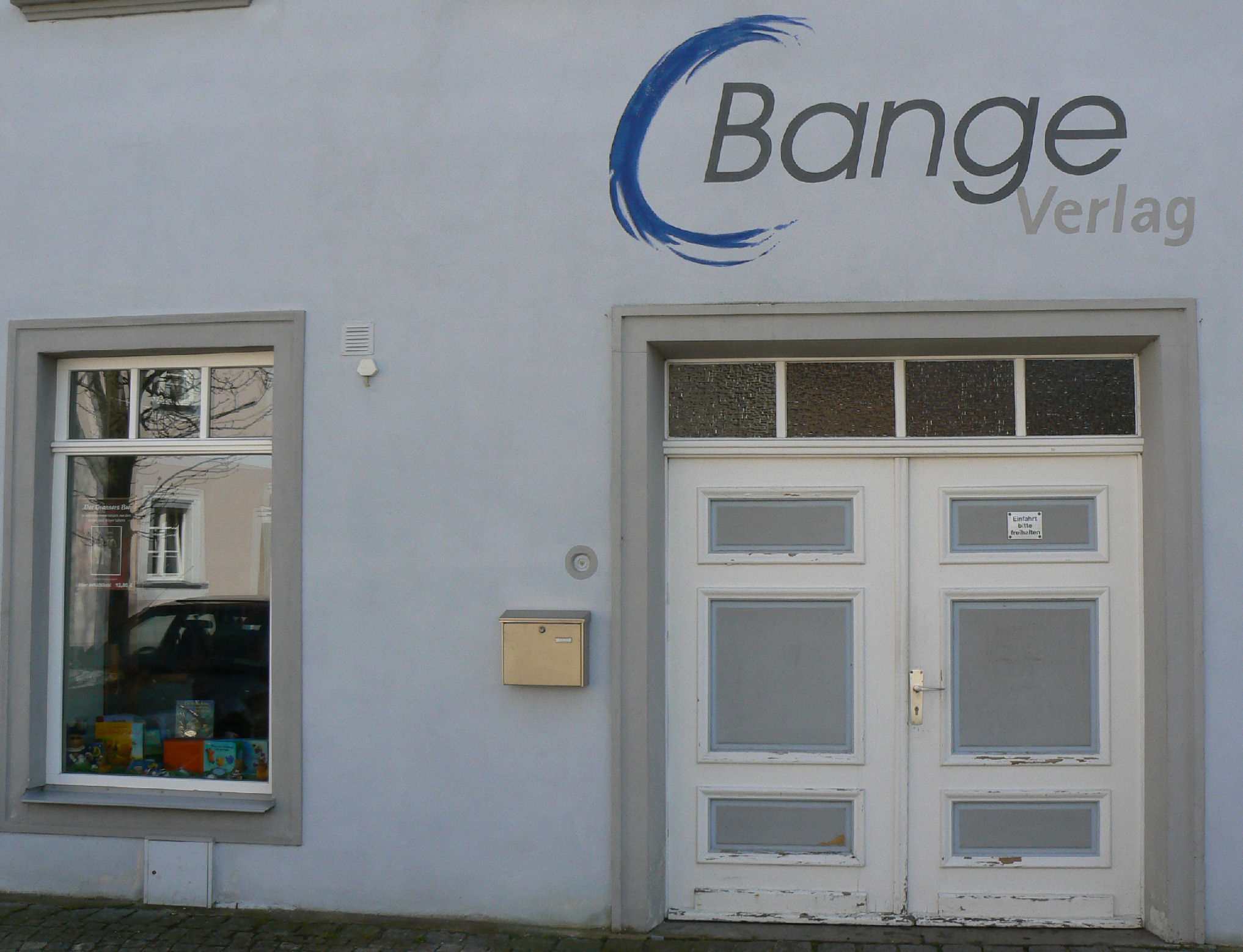 view of Hollfeld, Germany